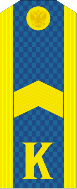 Russian rank insignia (1994-2010), here Kursant (wit the ranc "Sergeant first class" OR-7) – shoulder strap (Air Force, Airborne troops) field uniform.